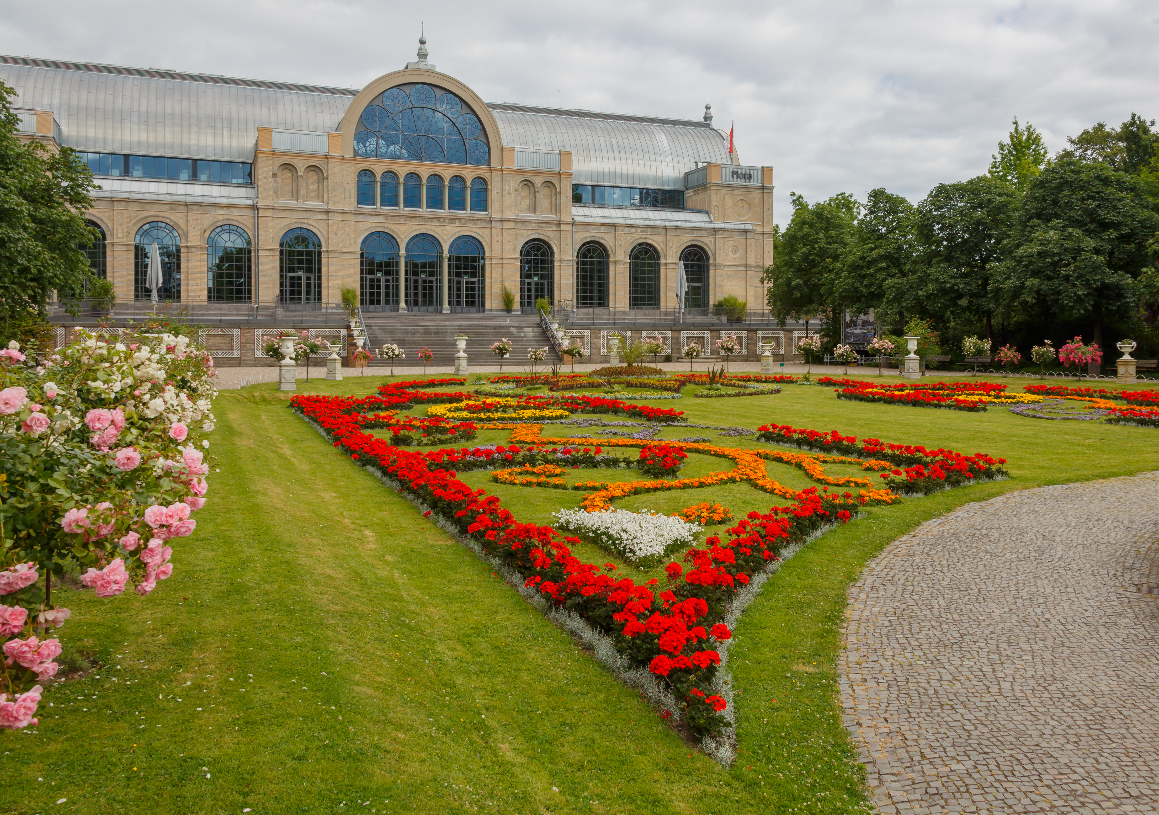 Cologne, Germany: "Flora Köln" after general refurbishment